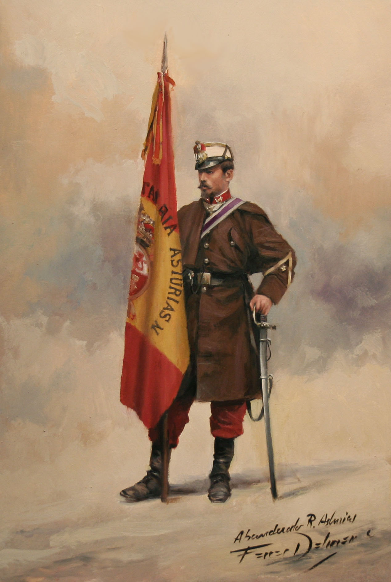 Regimiento Asturias en Africa 1861